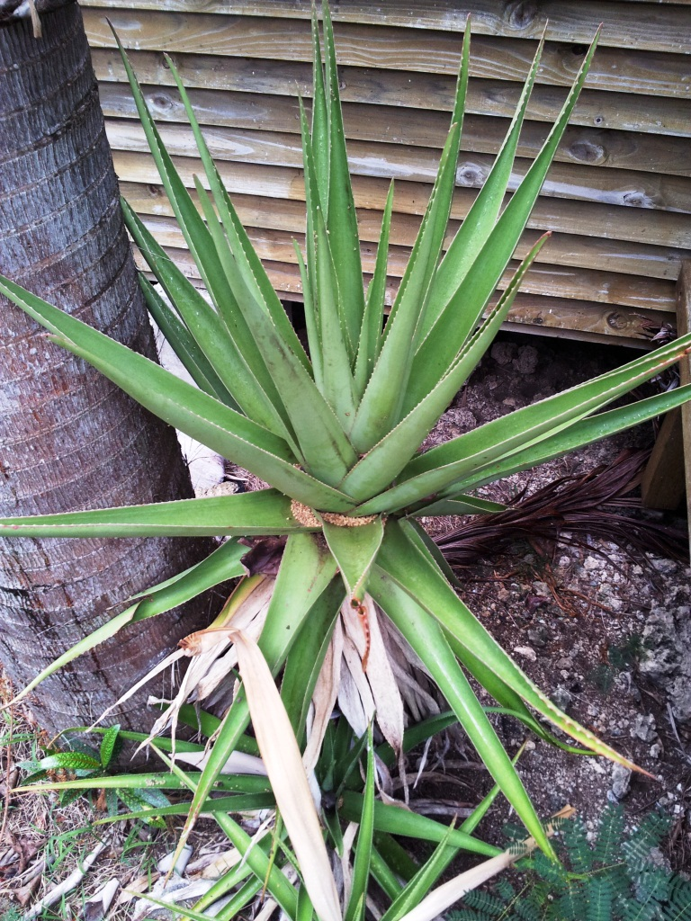 Lomatophyllum tormentorii - Mazambron - Now officially Aloe tormentorii - Ile aux Aigrettes - Mauritius